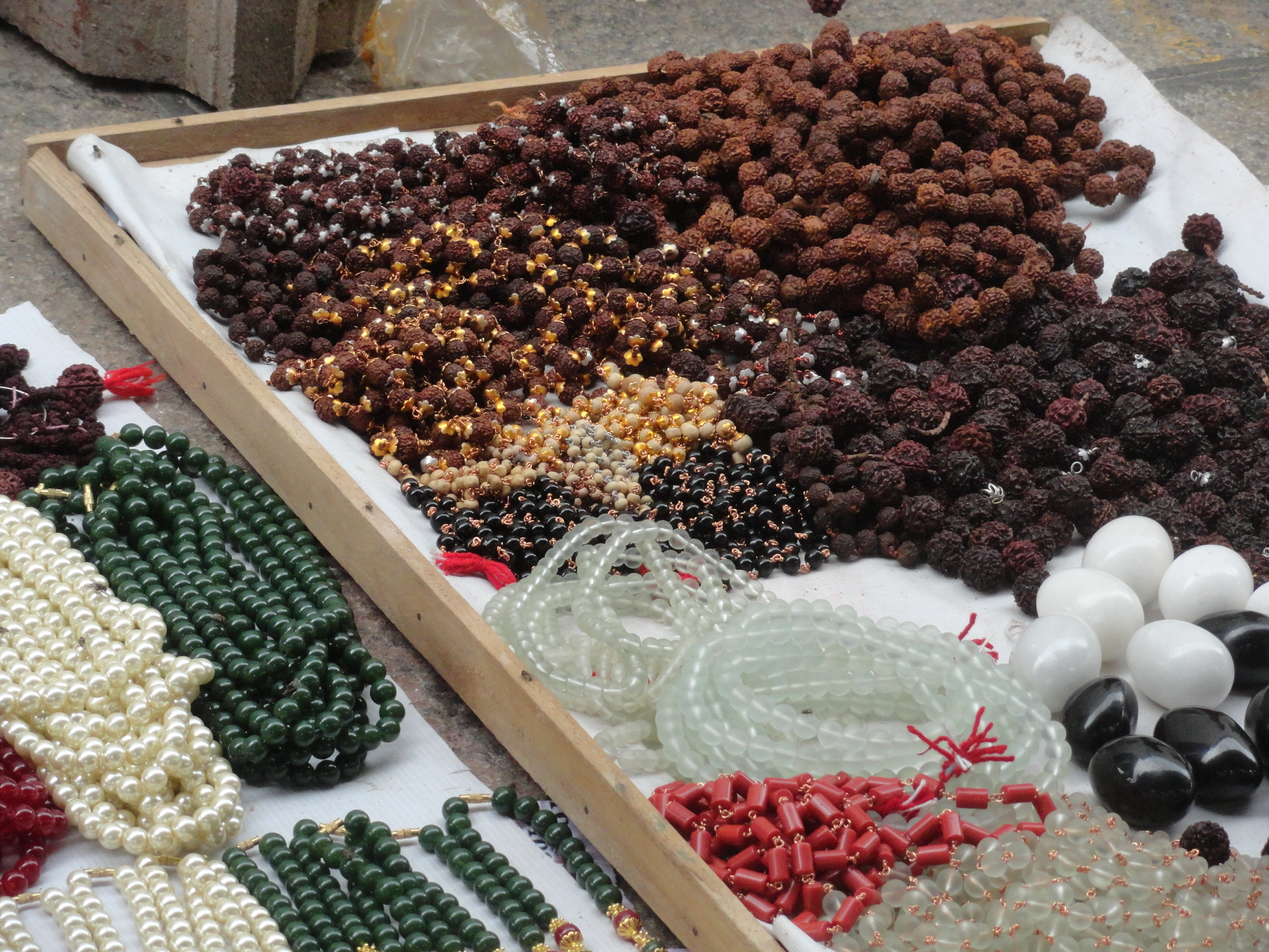 అమ్మకానికి రుద్రాక్ష మాలలు. తిరుచానూరులో